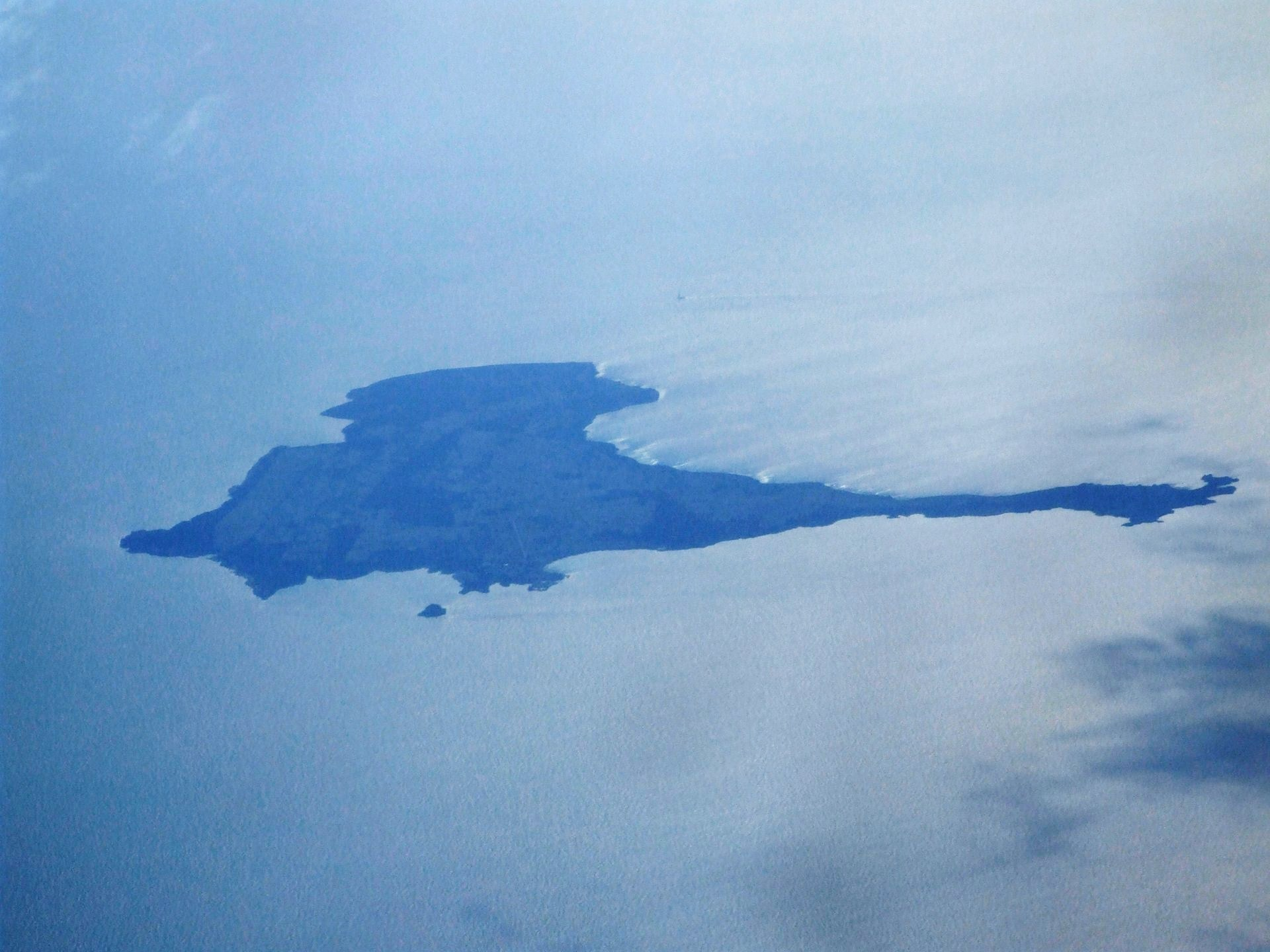 Pianosa Island, on italian Tuscan Archipelago, from plane.